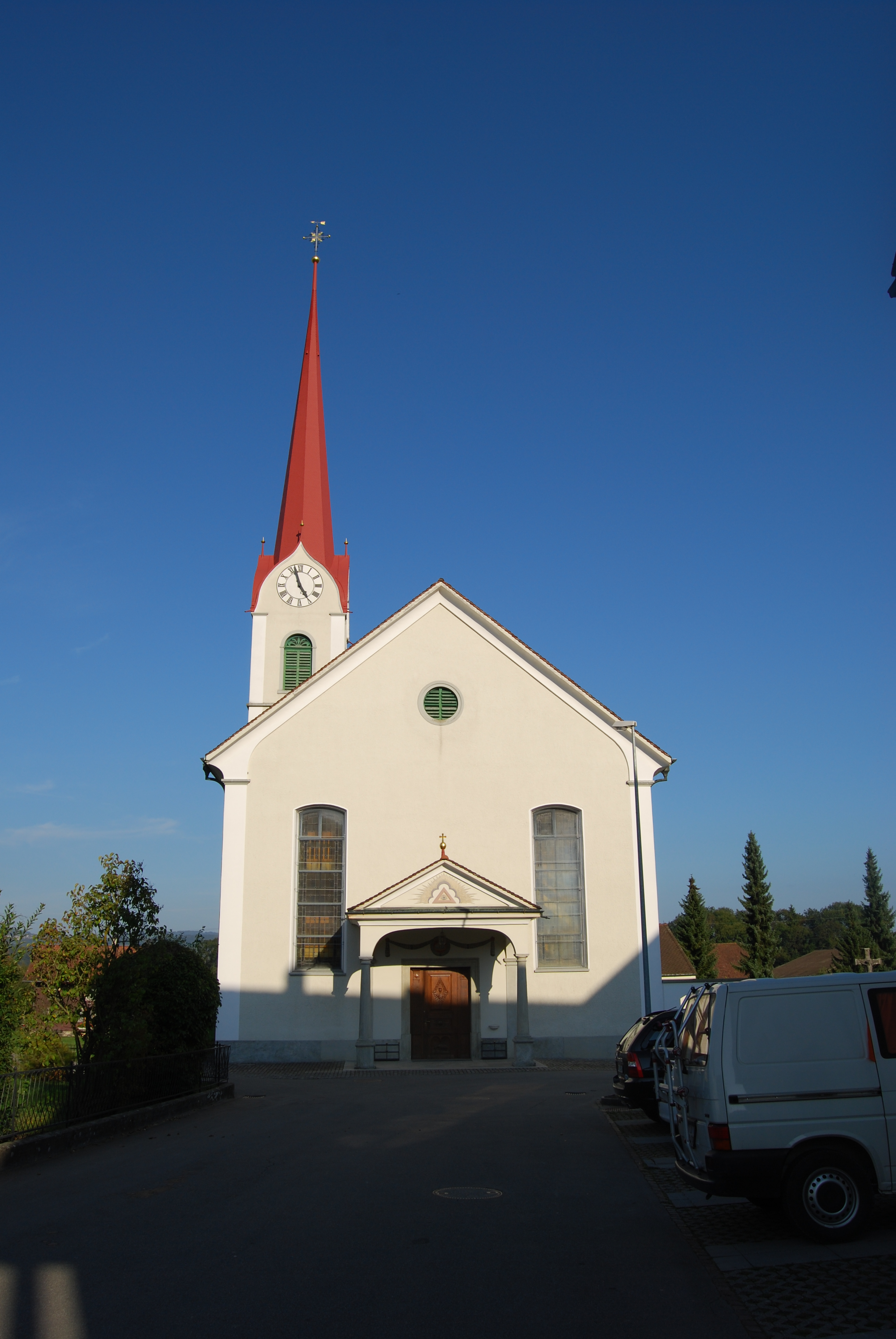 Church of Mühlau, canton of Aargau, SwitzerlandEsperanto: Preĝejo de Mühlau, Kantono Argovio, Svislando